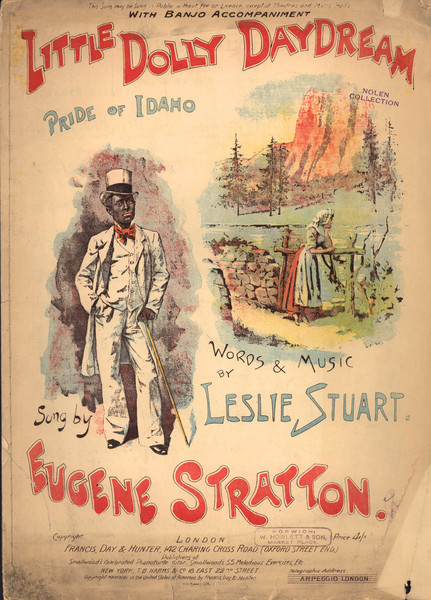 The cover of the sheet music Leslie Stuart (1897) Little Dolly Daydream: Pride of Idaho, London: Francis, Day & Hunter Ltd., OCLC 47314690. It features a drawing of the dancer and singer Eugene Stratton in blackface.